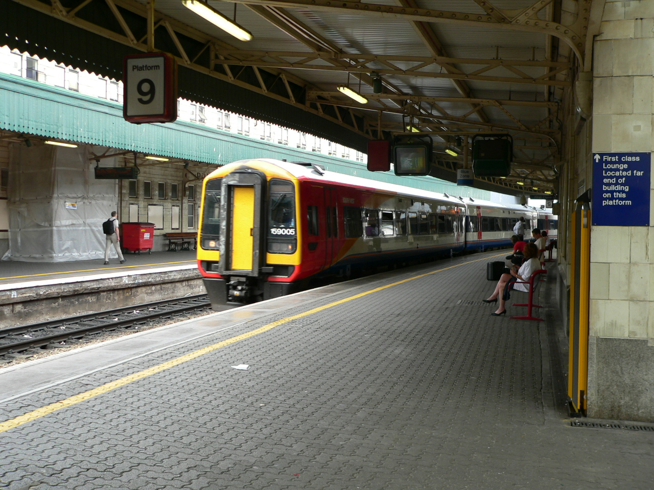 South West Trains Class 159 DMU 159005 arrives into Bristol Temple Meads with a service from London Waterloo via Salisbury.